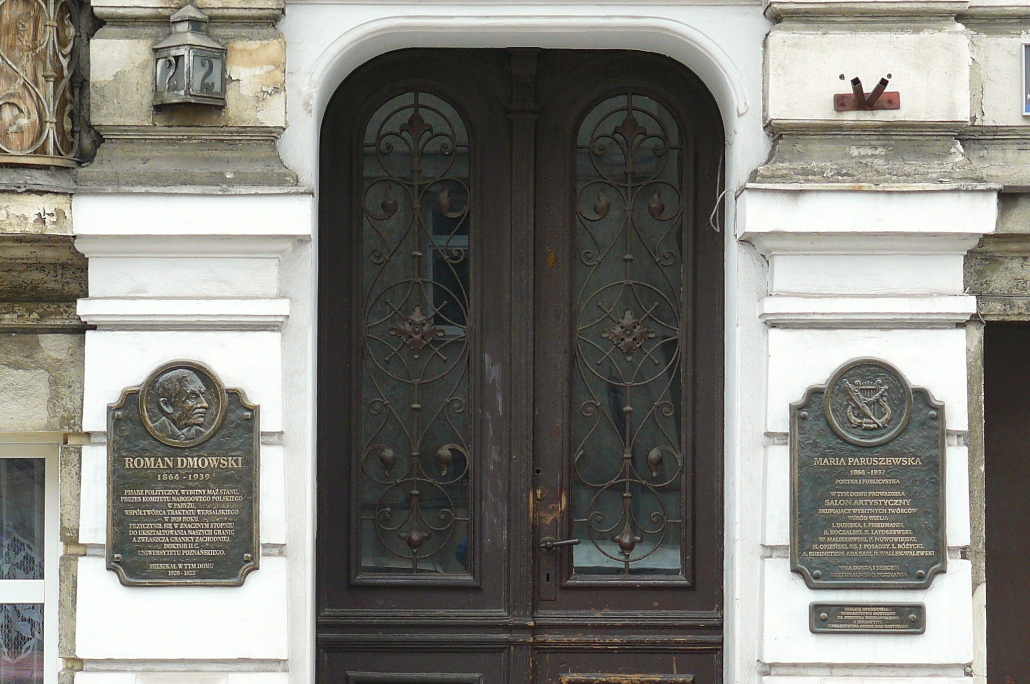 Marcinkowskiego Av. 2 - Poznan.